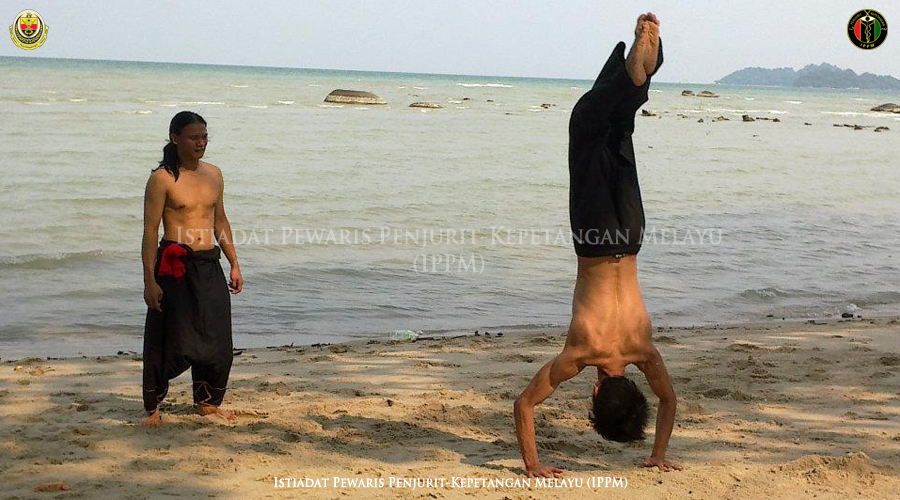 IPPM member, Ayub and Wan Syahril during a silat training in Malacca.